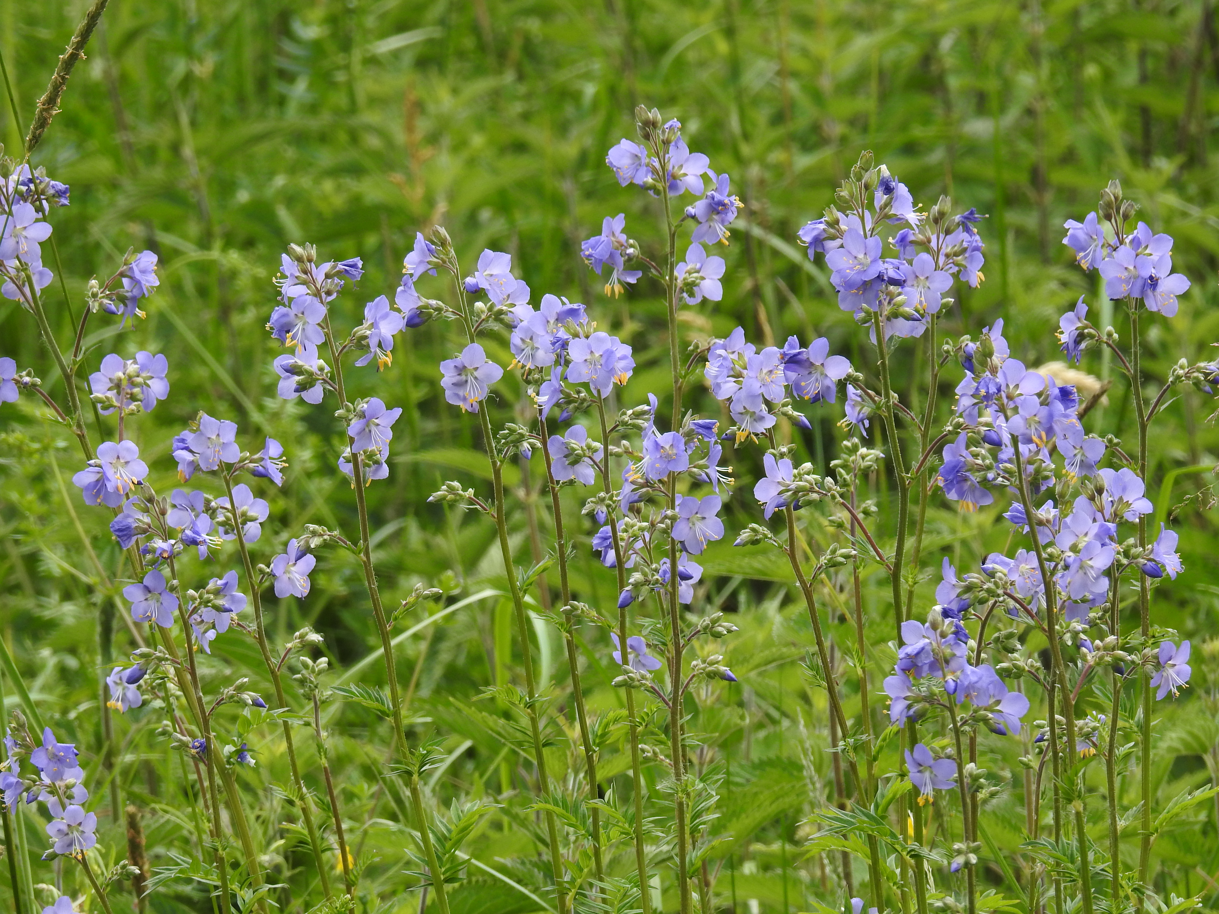 Jacob's ladder (Polemonium caeruleum), between Ulrichskapelle and Labermühle near Deining (Upper Palatinate, Germany)